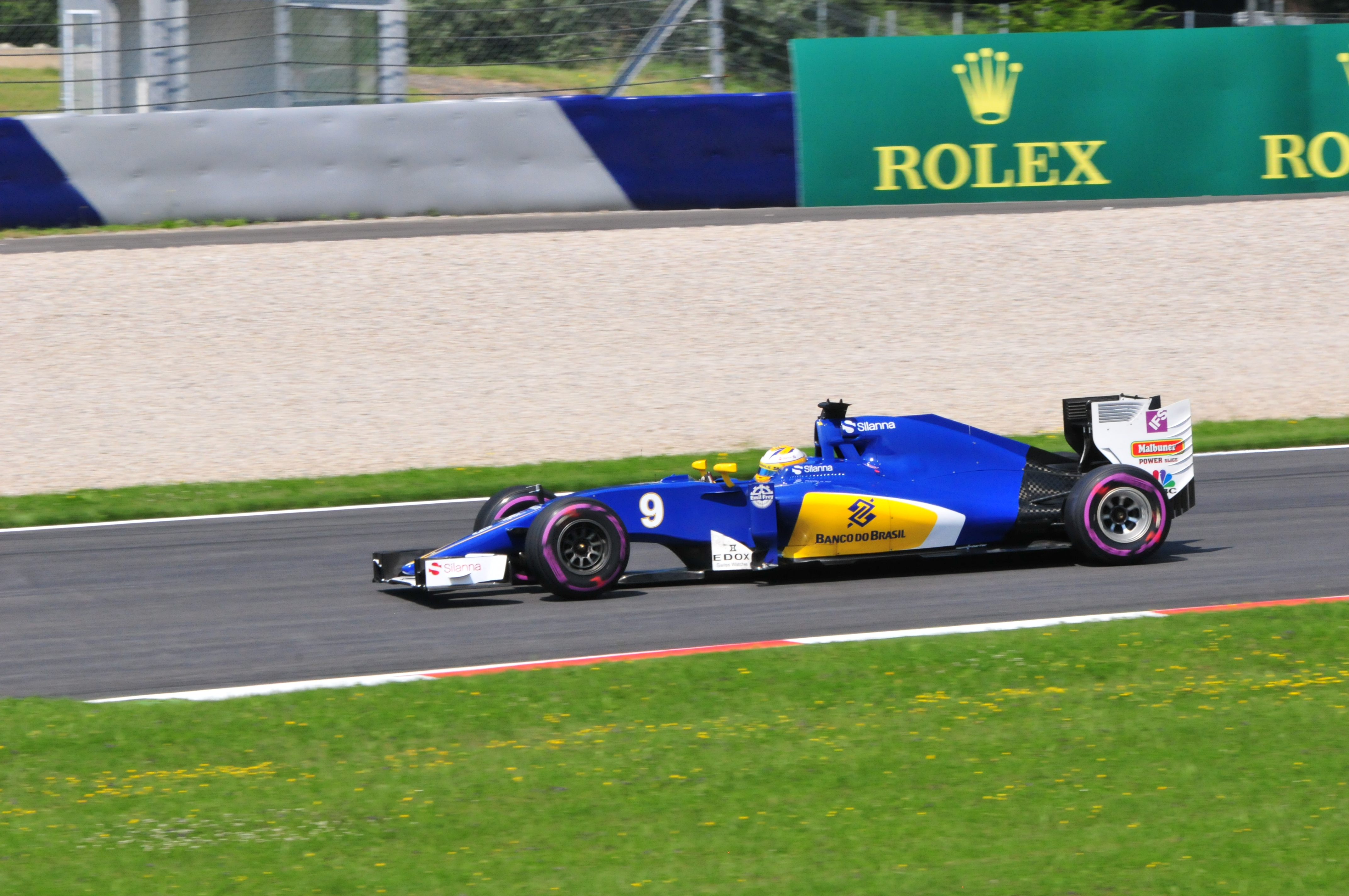 Sauber F1 Team #9 Marcus Ericsson